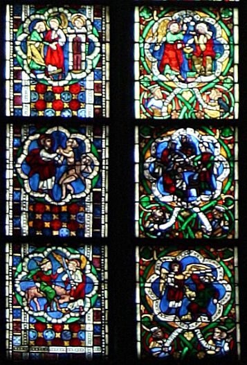 Mönchengladbach, Germany. Roman-catholic church St. Vitus, detail of stained-glass window in the choir, dated 1275.